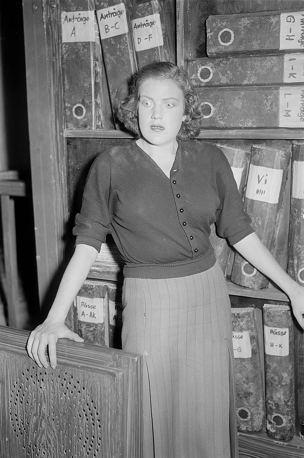 German operatic soprano Inge Borkh in "Der Konsul", ("The Consul"), Deutsche Oper Berlin.